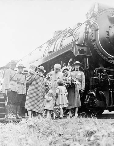 Visit of their Majesties King George VI and Queen Elizabeth. Her Majesty is accepting flowers from a little girl, they just got off the train. July 1939 / Beavermouth, B.C.